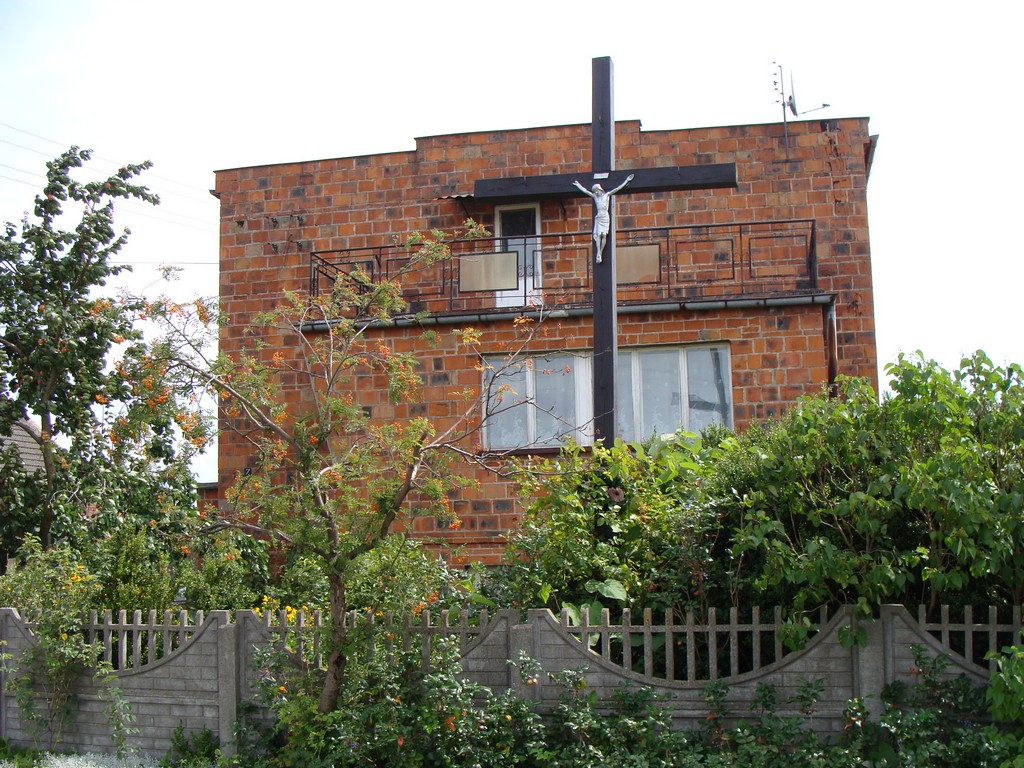 Pucołowo, roadside shrine.